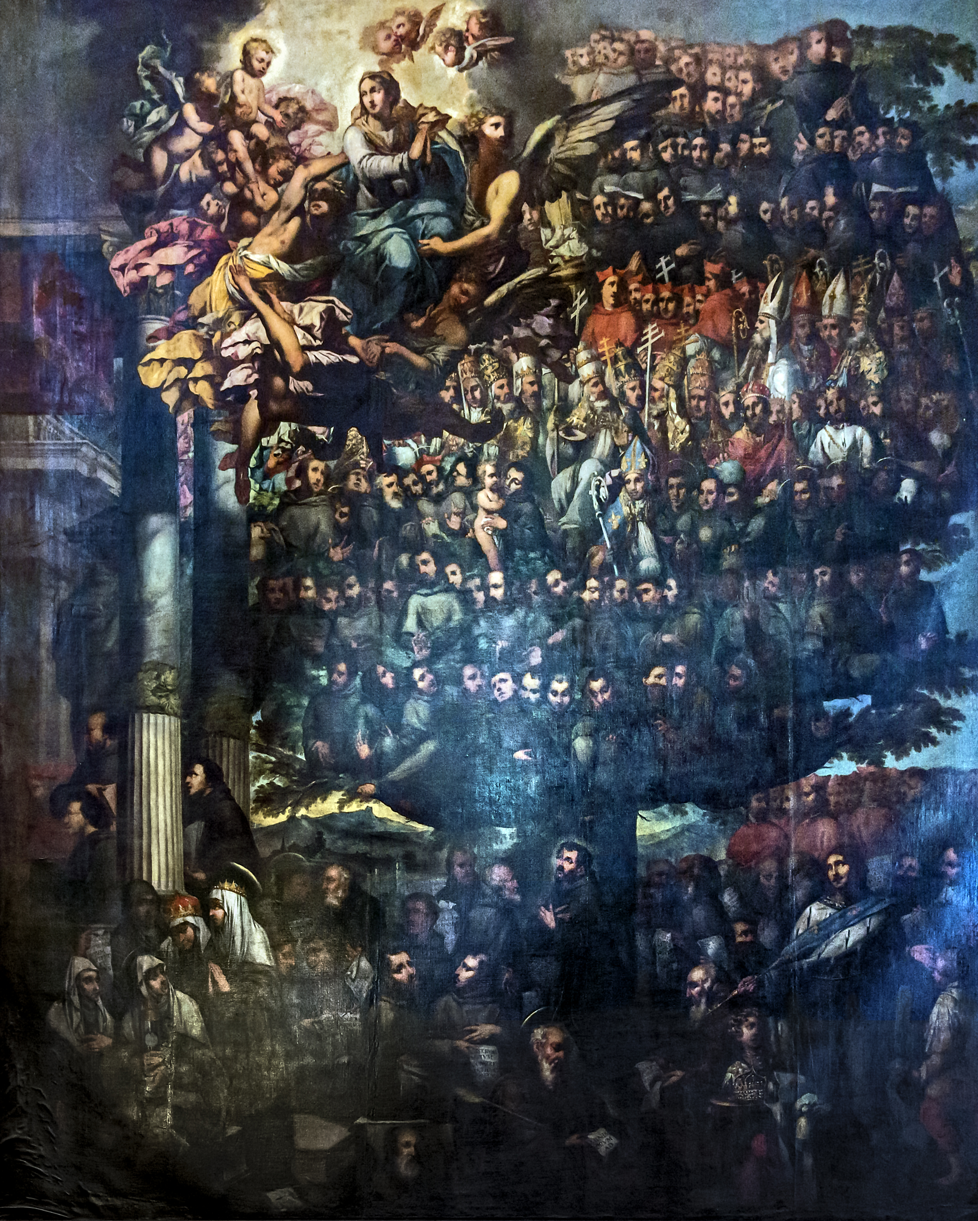 Santa Maria Gloriosa dei Frari - Tree seraphic of the three Franciscan Orders by Pietro Negri 1670. Technique : oil on canvas. A very large canvas depicting the Franciscan Tree: either the holy and sacred in the order of St. Francis of Assisi canonized at the time.